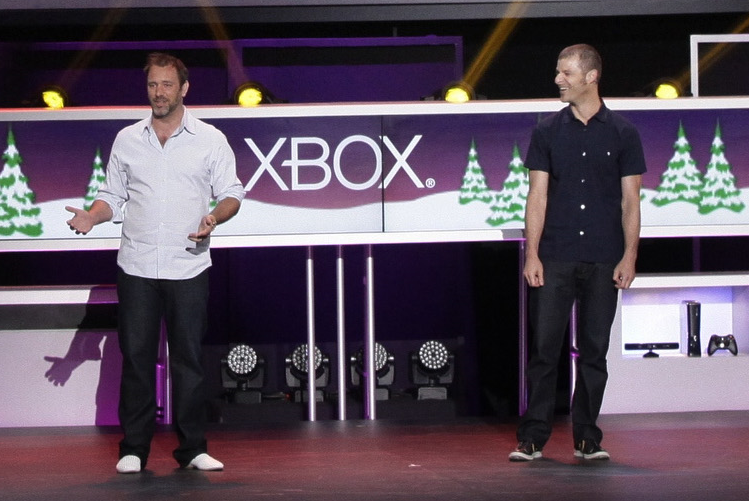 E3 Expo 2012 (Microsoft Press Event). Matt Stone and Trey Parker talking about South Park: The Stick of Truth.